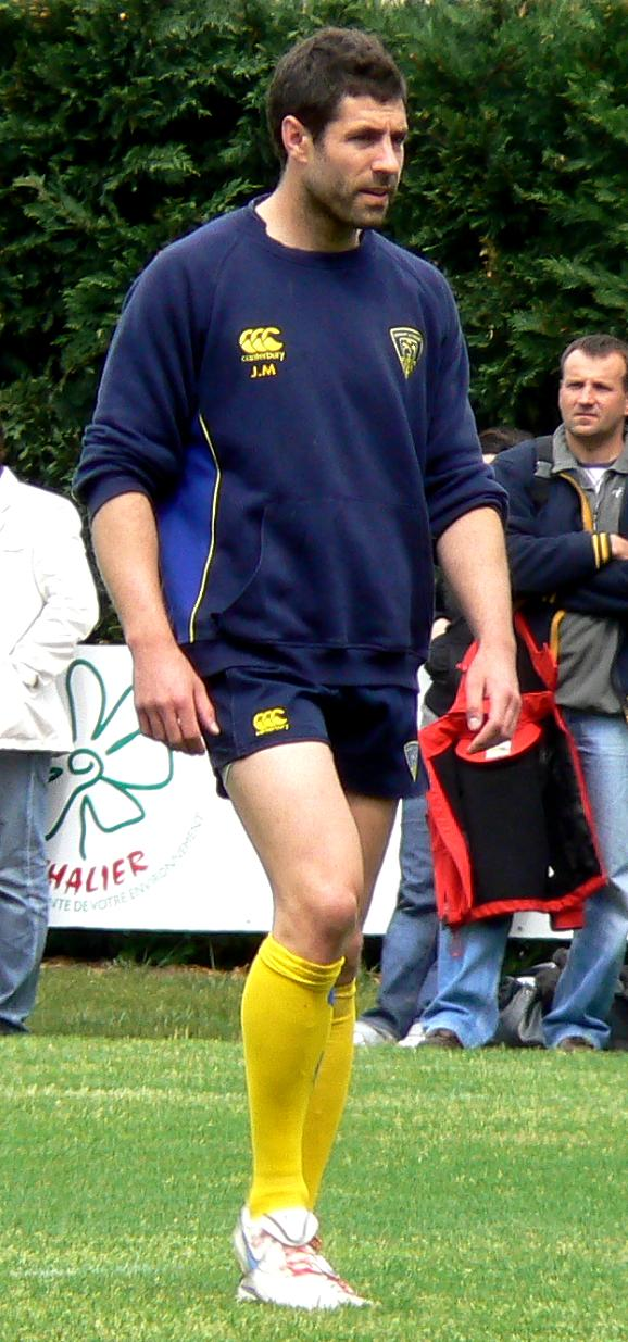 The french rugbyman Julien Malzieu with ASM Clermont Auvergne